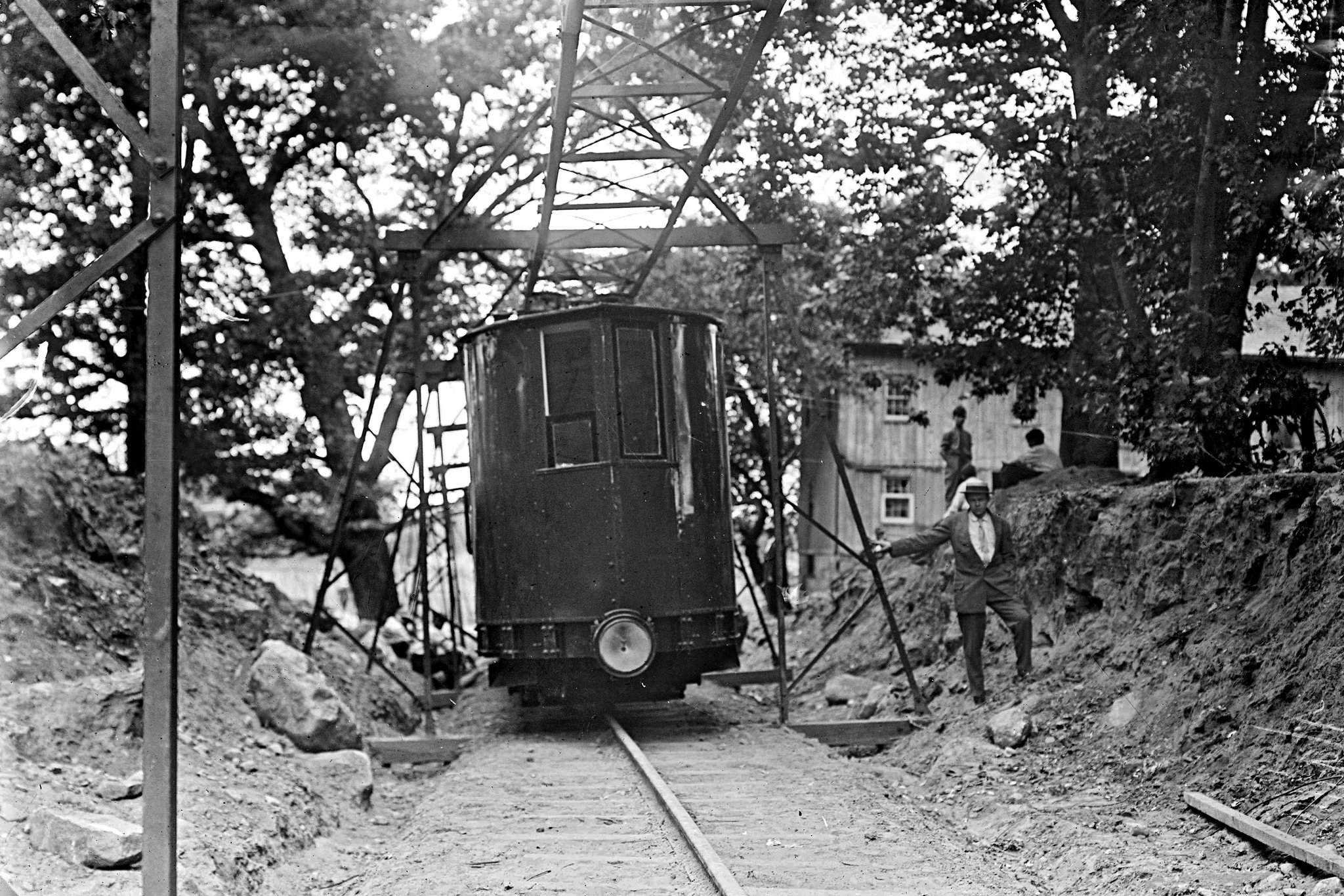 Monorail car City Island (New York) R.R.